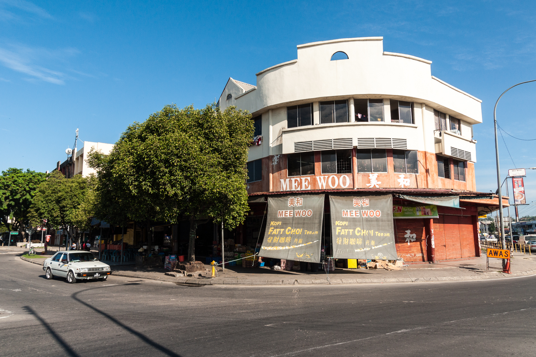 Inanam, Sabah: House at the intersection near Gereja Basel Inanam